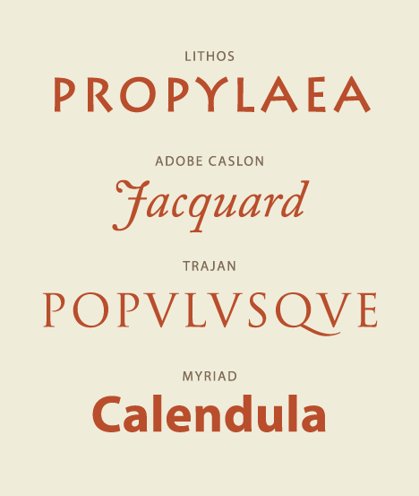 Specimens of types by typeface designer Carol Twombly, 14.02.07, Jim Hood